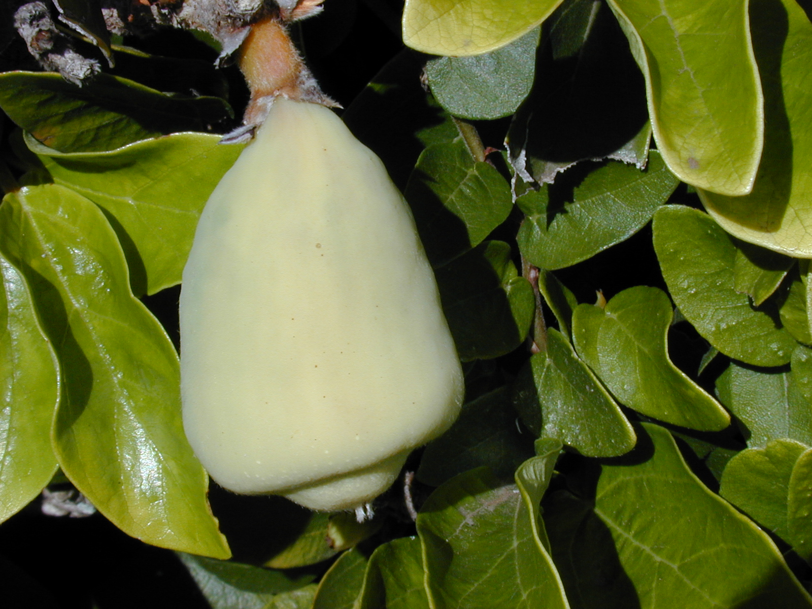 Ficus pumila (fruit). Location: Maui, Hui Noeau Makawao